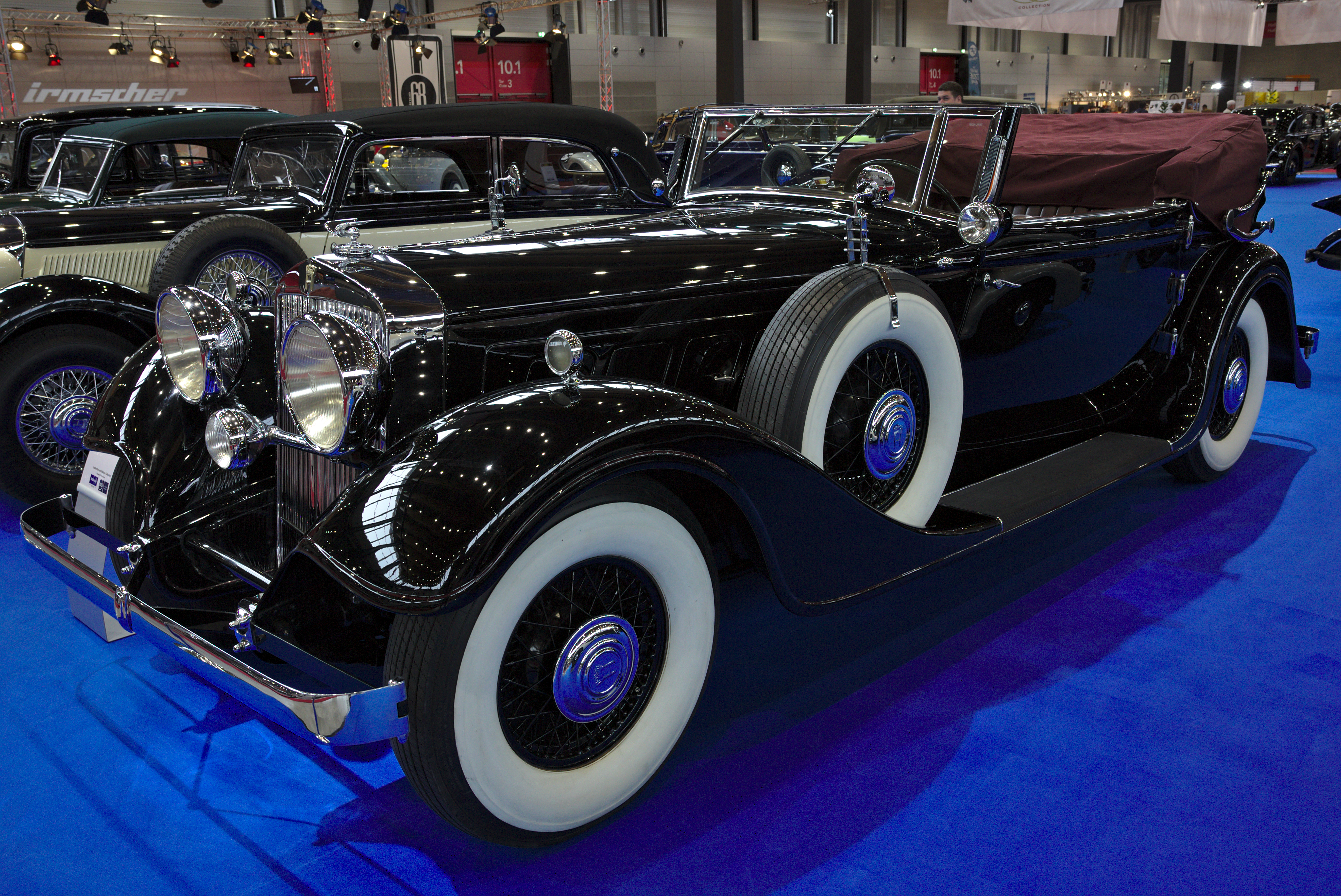 Horch 780 Sport Cabriolet at Retro Classics 2018